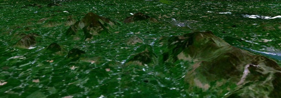 Ring of Gullion 3D Satellite View